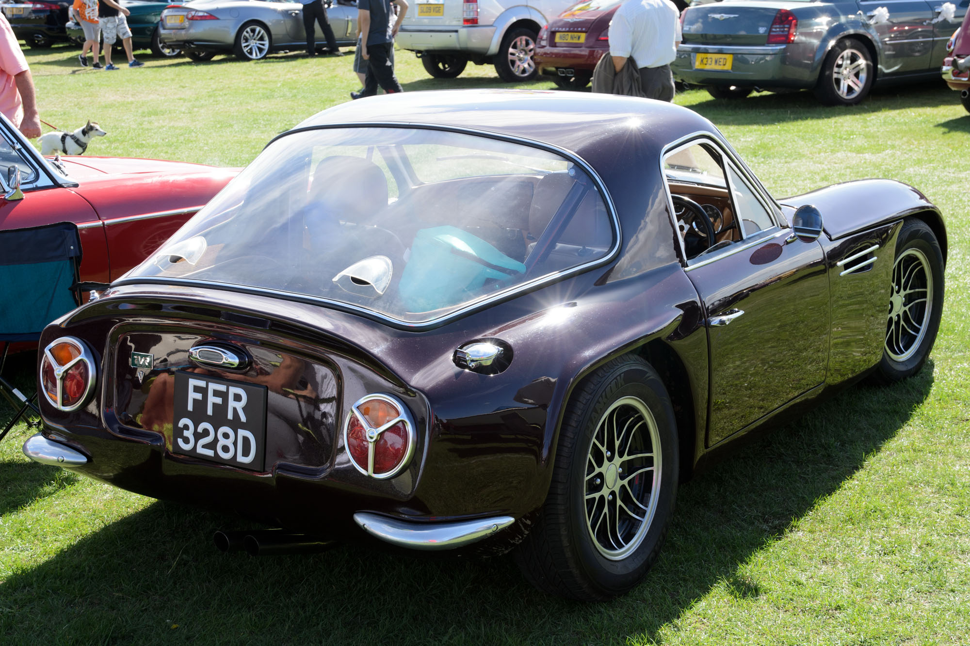 Lytham Classic Car Show 11/09/2016